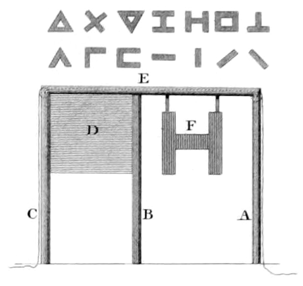 Fig. 1 and 2 from the plate on "Telegraph" in Rees's Cyclopædia, illustrating Robert Hooke's proposal for an optical telegraph system. For further explanatory text, see entry on "TELEGRAPH", volume 35 of the Cyclopædia.